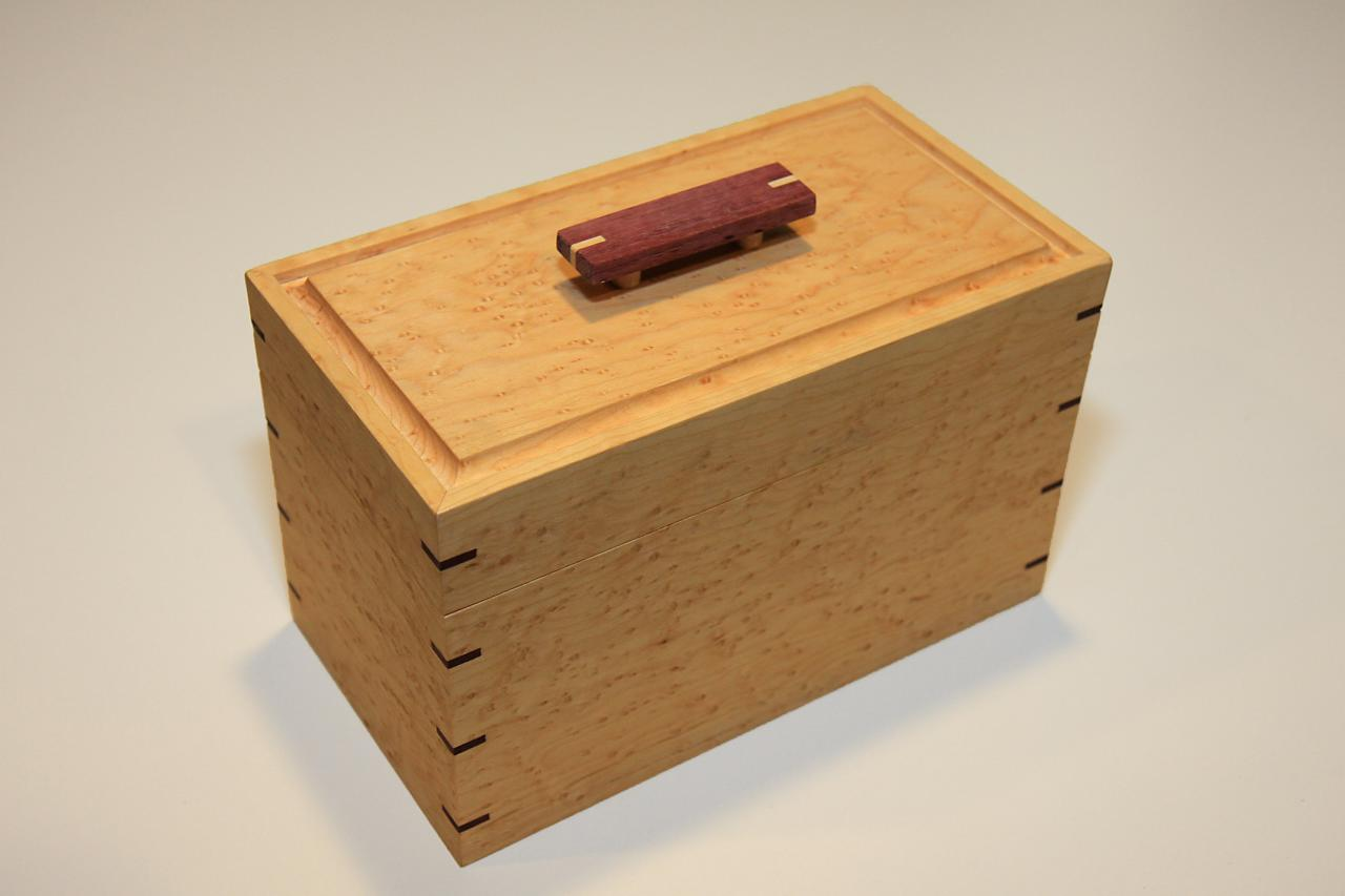 A box for wine accessories. The colors of the birdseye maple and purple heart are meant to be reminiscent of white and red wine. There are splines at the corners. Here is a close-up photo of the box's corner.